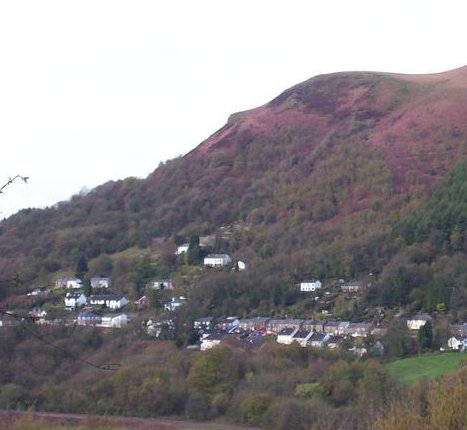 Gwaelod-Y-Garth, Wales. Photograph taken by Varitek